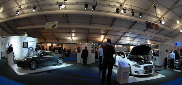 The file shows the main exhibition hall from the Low Carbon Vehicle Event 2013. It is used in